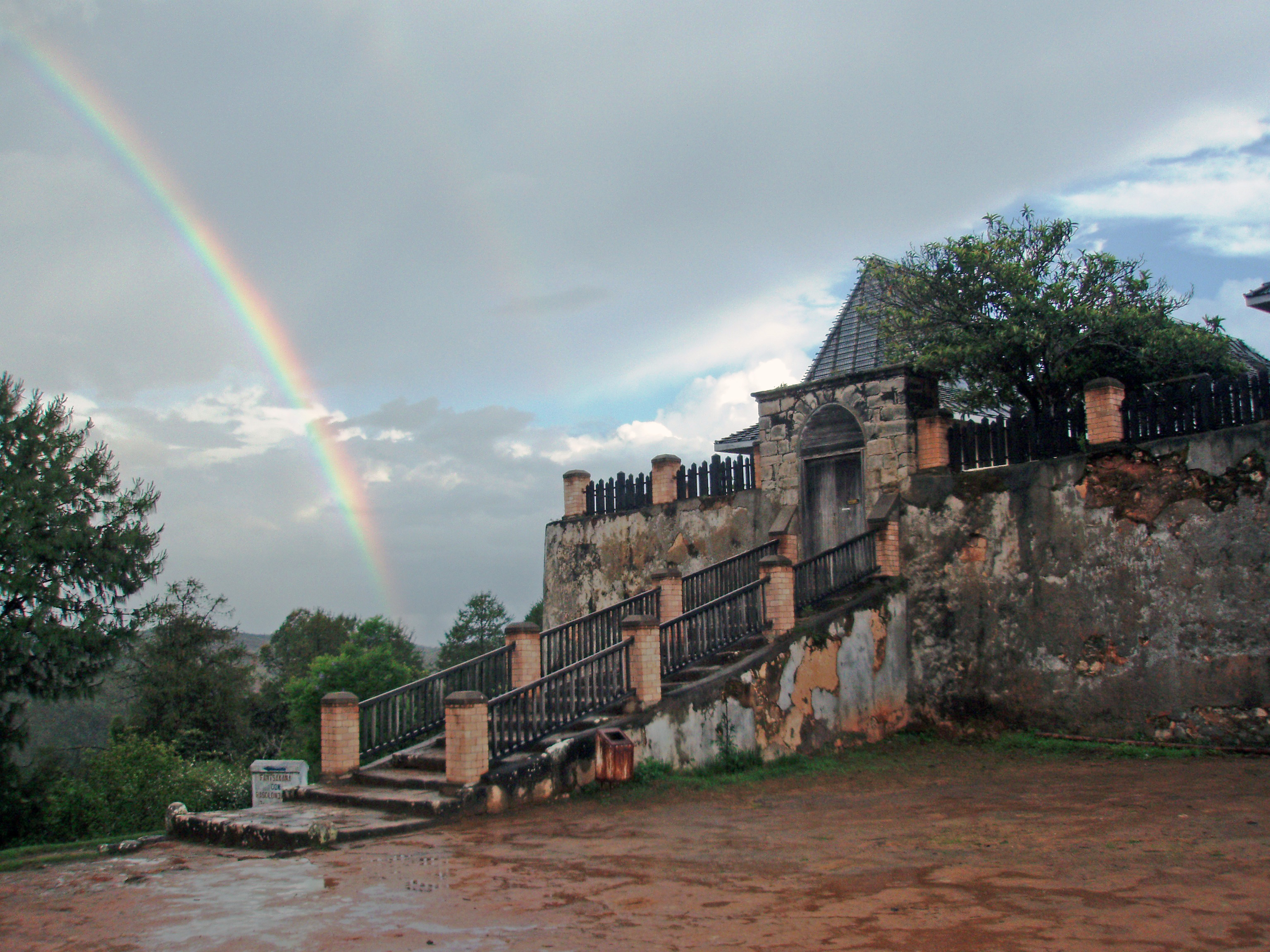 Rova of Tsinjoarivo (Ambatolampy district), entrance area, view to the East